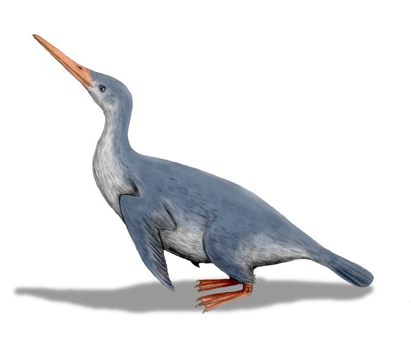 Waimanu manneringi, an extinct penguin from the Middle Oligocene of New Zealand.